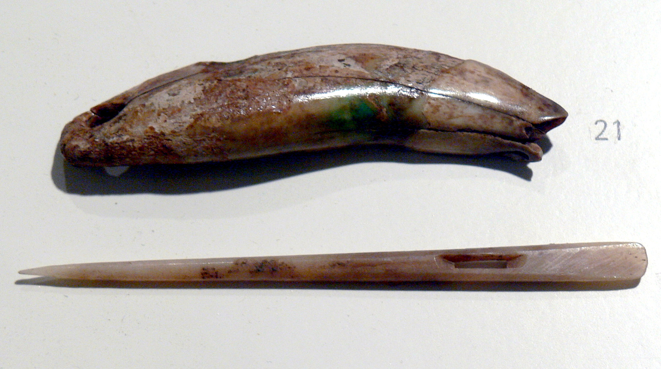 Archaeological museum Gunzenhausen ( Bavaria ). Merovingian bone object and needle.